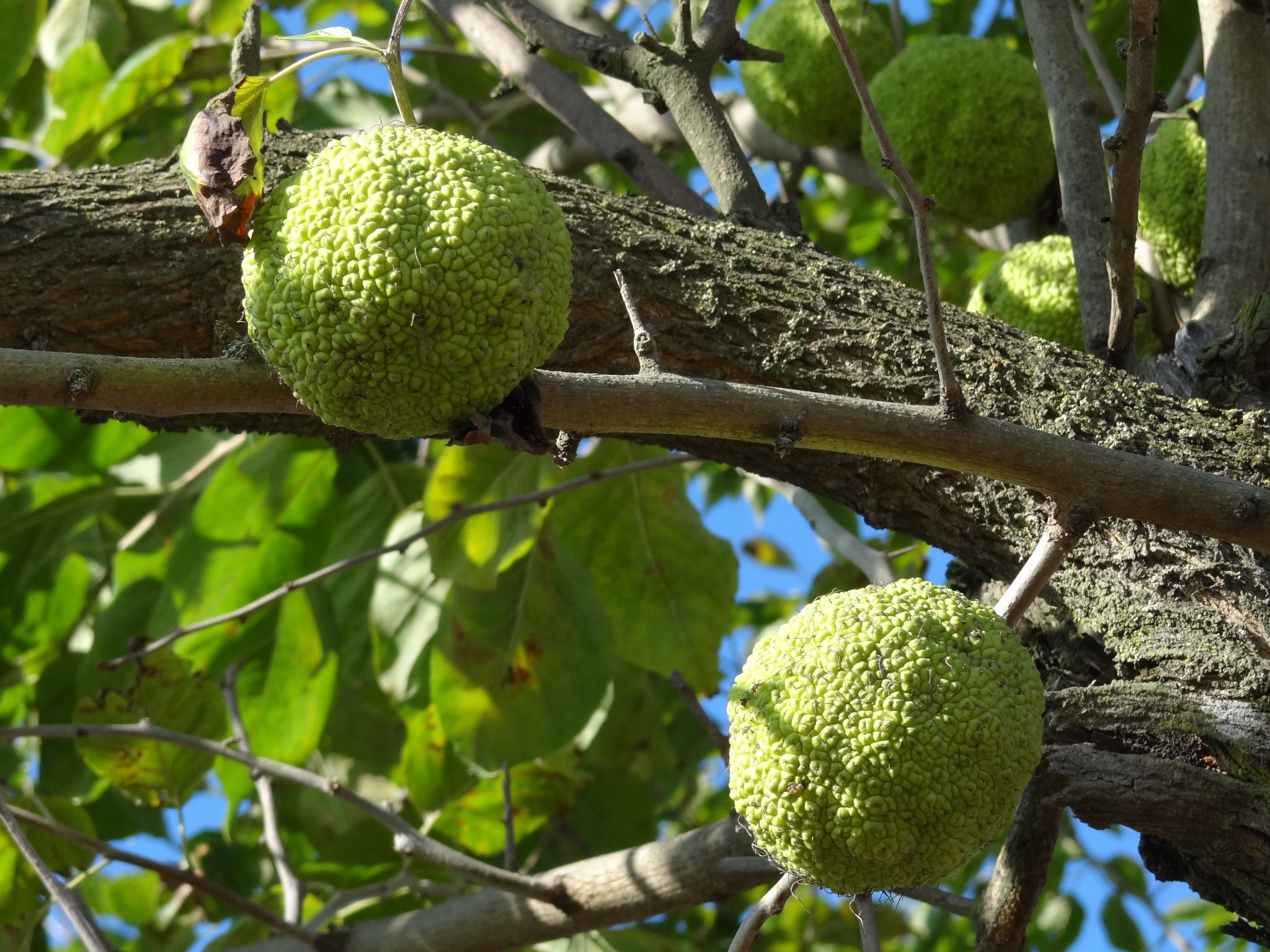 Osage orange, Annaba, Algeria